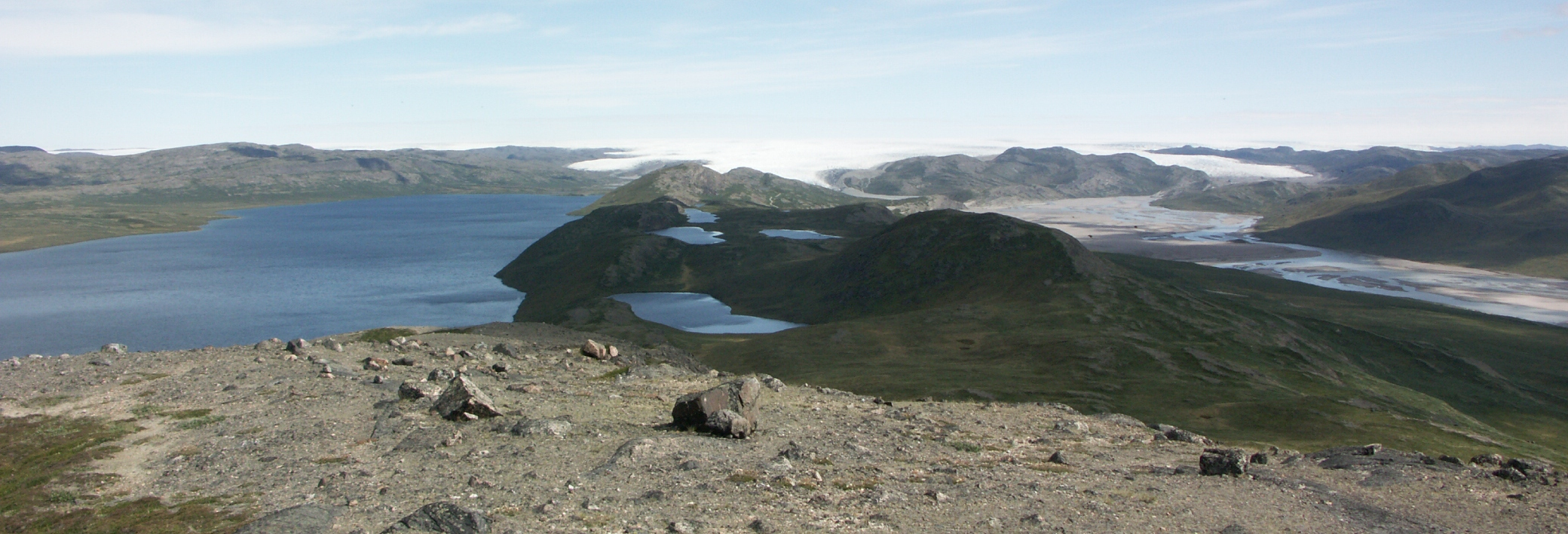 View to the east from a ridge immediately north of the Akuliarusiarsuup Kuua river: Aajuitsup Tasia lake, five lakes on the eastern reaches of the ridge, and the quicksands of the wide Akuluarusiarsuup Kuua valley, with Sermersuaq, the Greenland Ice Sheet, far in the background.